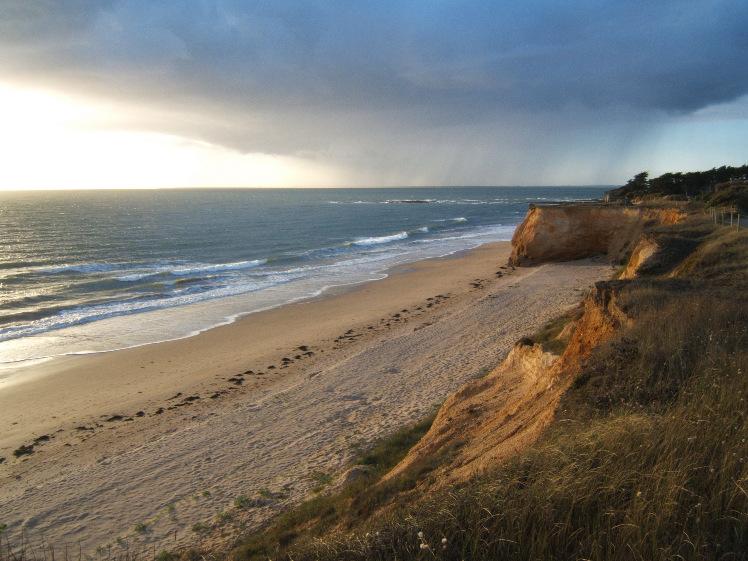 Sun and rain at Loscolo Point, Pénestin, Bretagne, France.